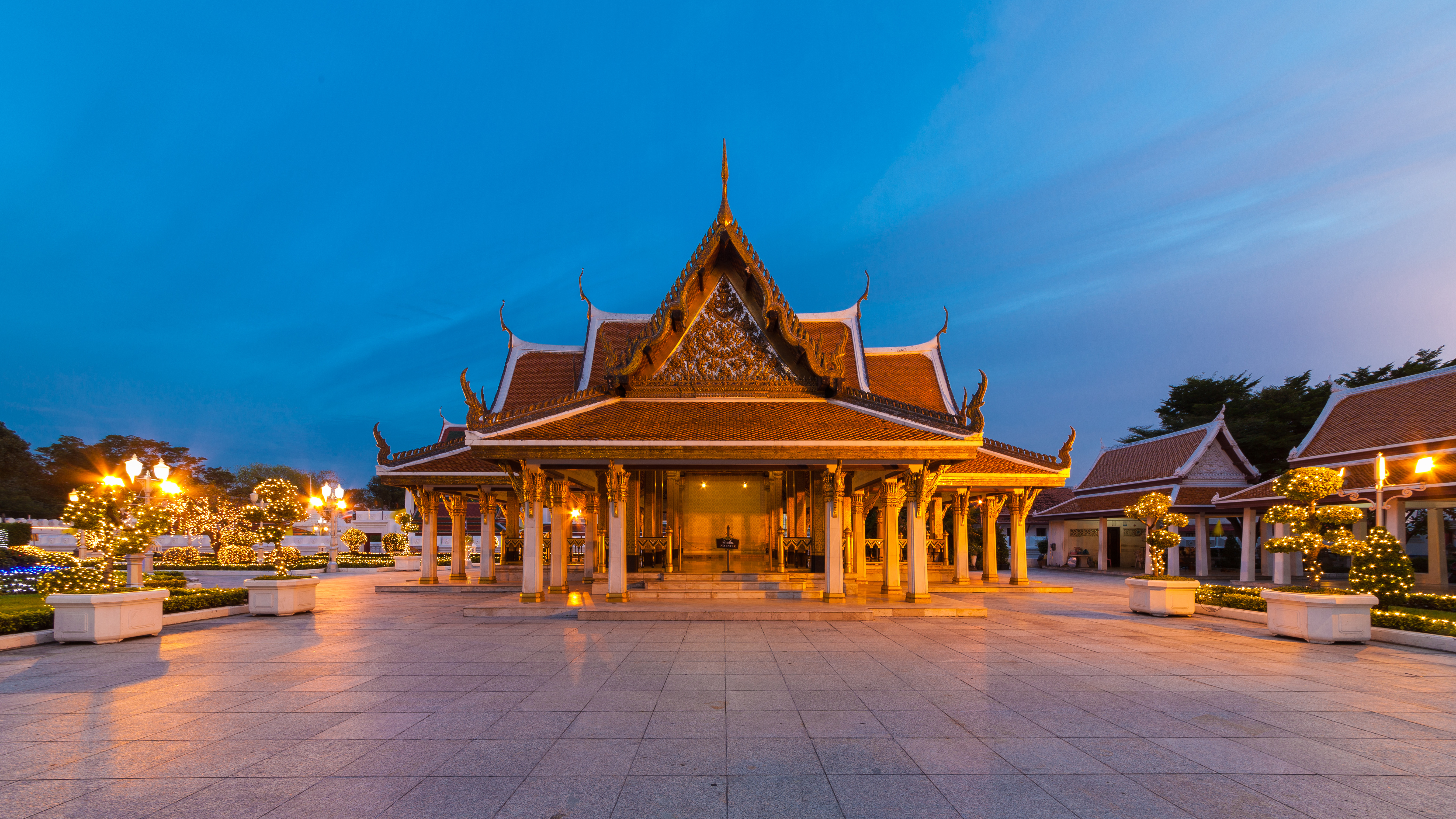 Maha Chetsadabodin Pavilion Court is a royal court housing the Maha Chetsadabodin Pavilion built in 1989 on the Central Ratchadamnoen Road in Phra Nakhon District, Bangkok.